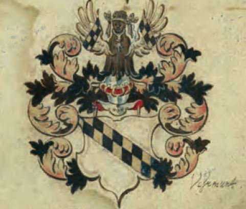 Coat of Arms of the familiy of Viermund (Vihrmunt), 1639